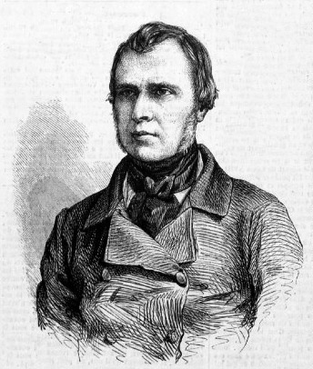 Portrait of French conductor Narcisse Girard (1798-1860)